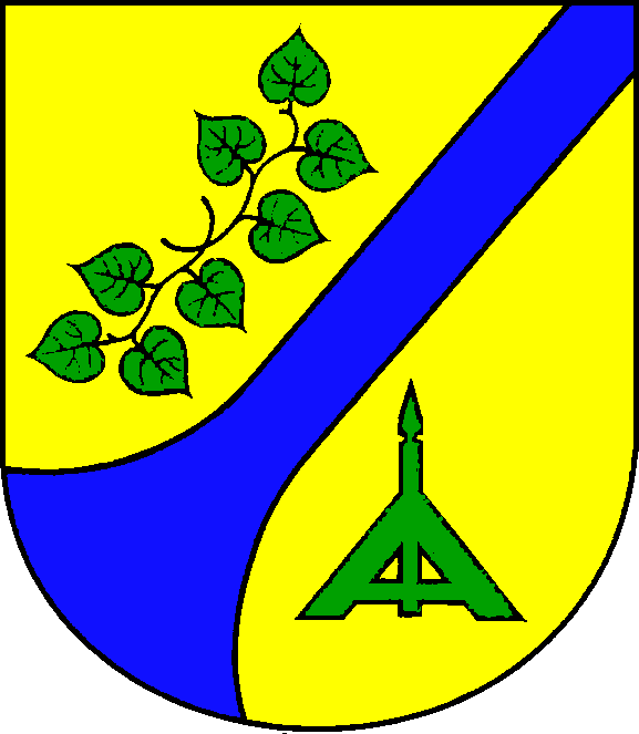 Coat of arms of the municipality Tramm in Schleswig-Holstein, Germany.